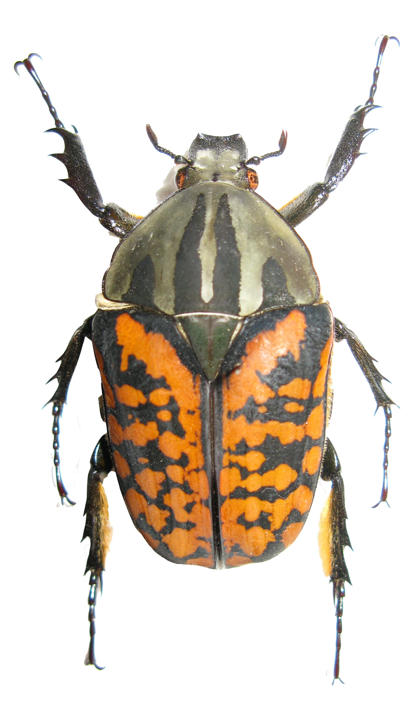 Mecynorhina oberthueri decorata (female)